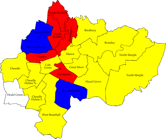 A map that shows the ward results in Stockport council by party colour